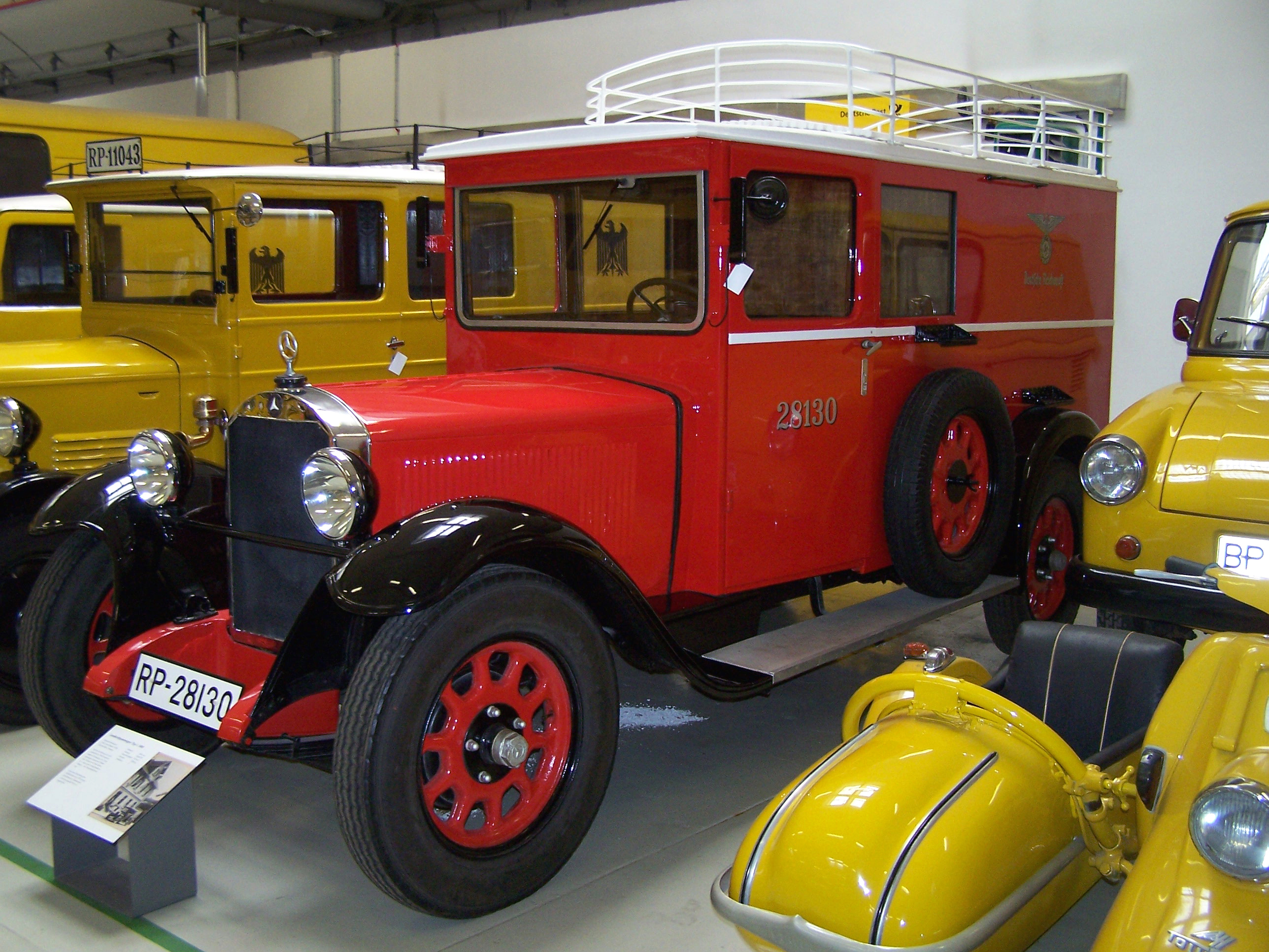 Mercedes-Benz L 1000 Express (W 37) box wagon (countryside post car) of the German Reichspost, built 1928, cylinder capacity 2581 ccm, engine power 48/50 hp, max. speed 65 km/h, payload 1000 kg, 4 seats, in the depot of the Museum for communication Frankfurt am Main in Heusenstamm